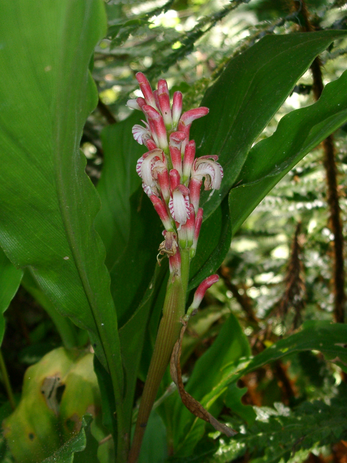 Alpinia japonica 's flower, Odawara-city, Japan.